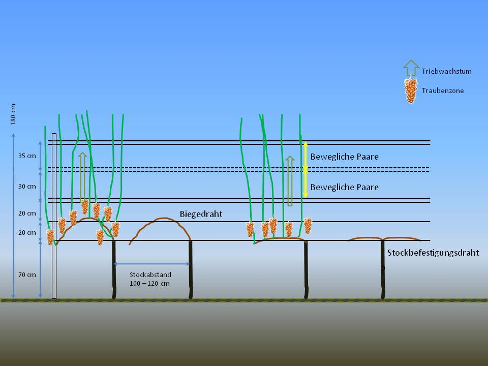 Hochdrahterziehung